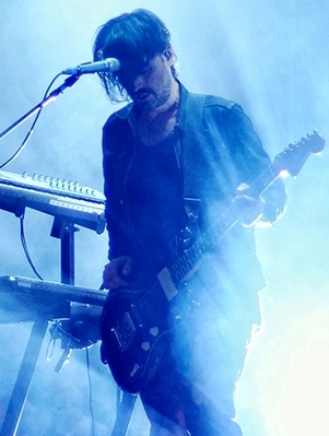 Thirty Seconds to Mars performing in Padova, Italy on July 14, 2013